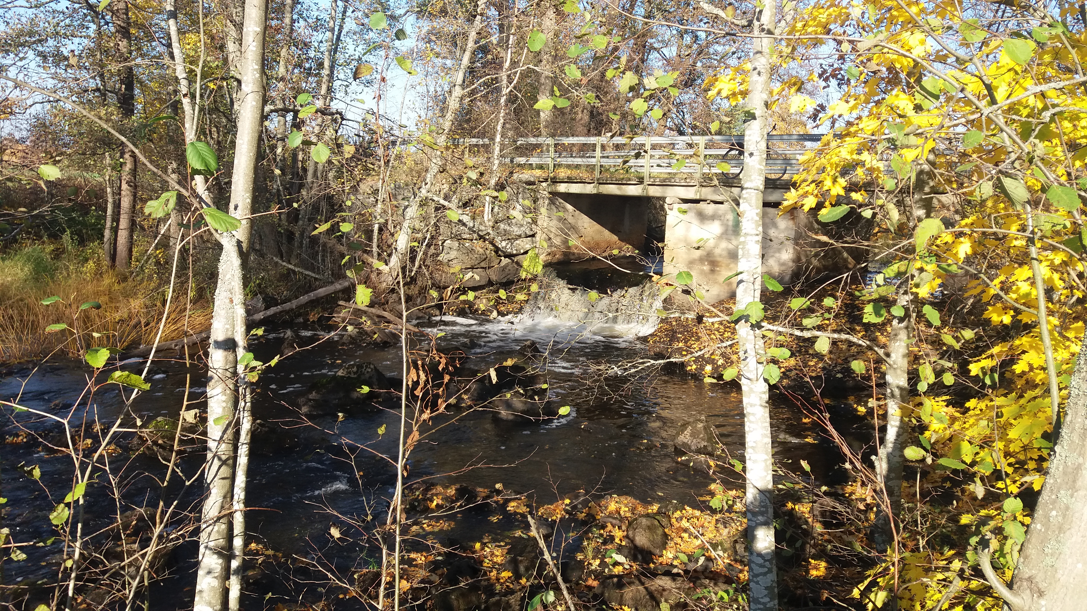 Solakoski rapid in the river Kullaanjoki, Ulvila, Finland.